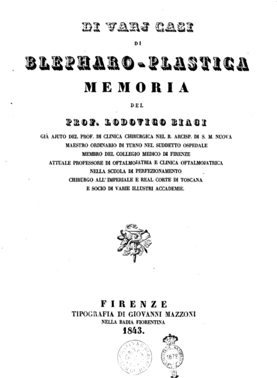 Blepharoplastica